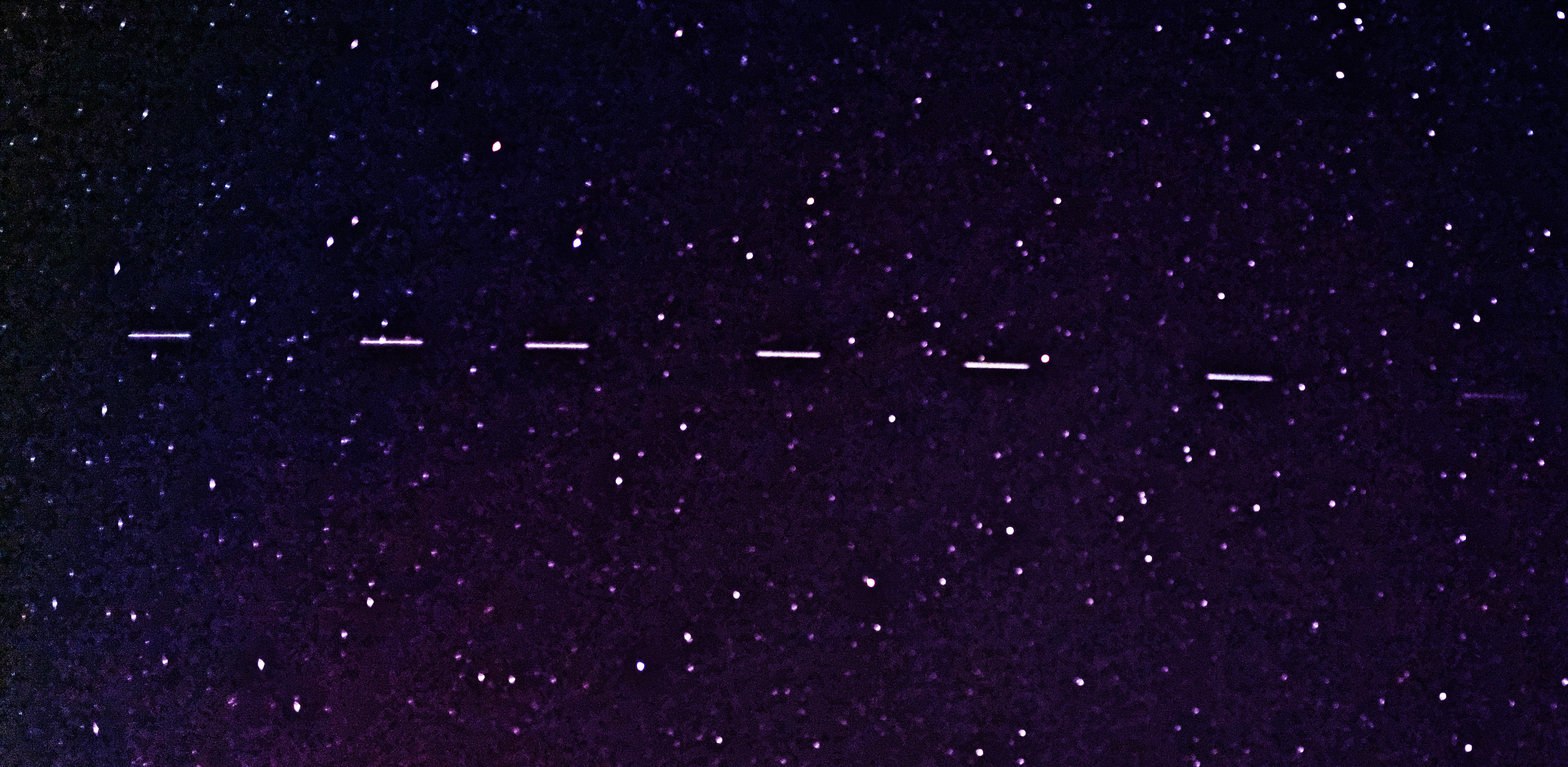 Some Starlink 6 satellites, seen April 28, 2020 over the US state of Georgia. Six satellites are easily visible, a seventh one is very faint on the right. They were magnitude 3.3 and visible to the naked eye. This was a 2-second exposure.